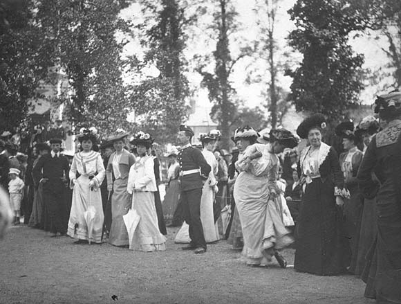 Well dressed crowd at the world fair, Herbert Park, Dublin 1907